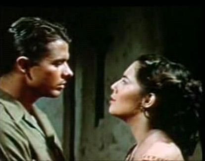 Screenshot of Audie Murphy and Susan Kohner from the film To Hell and Back